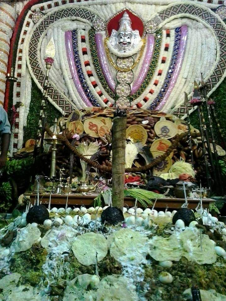 Non vegetarian meals are served for SudalaiMadan in a temple in Thovalai